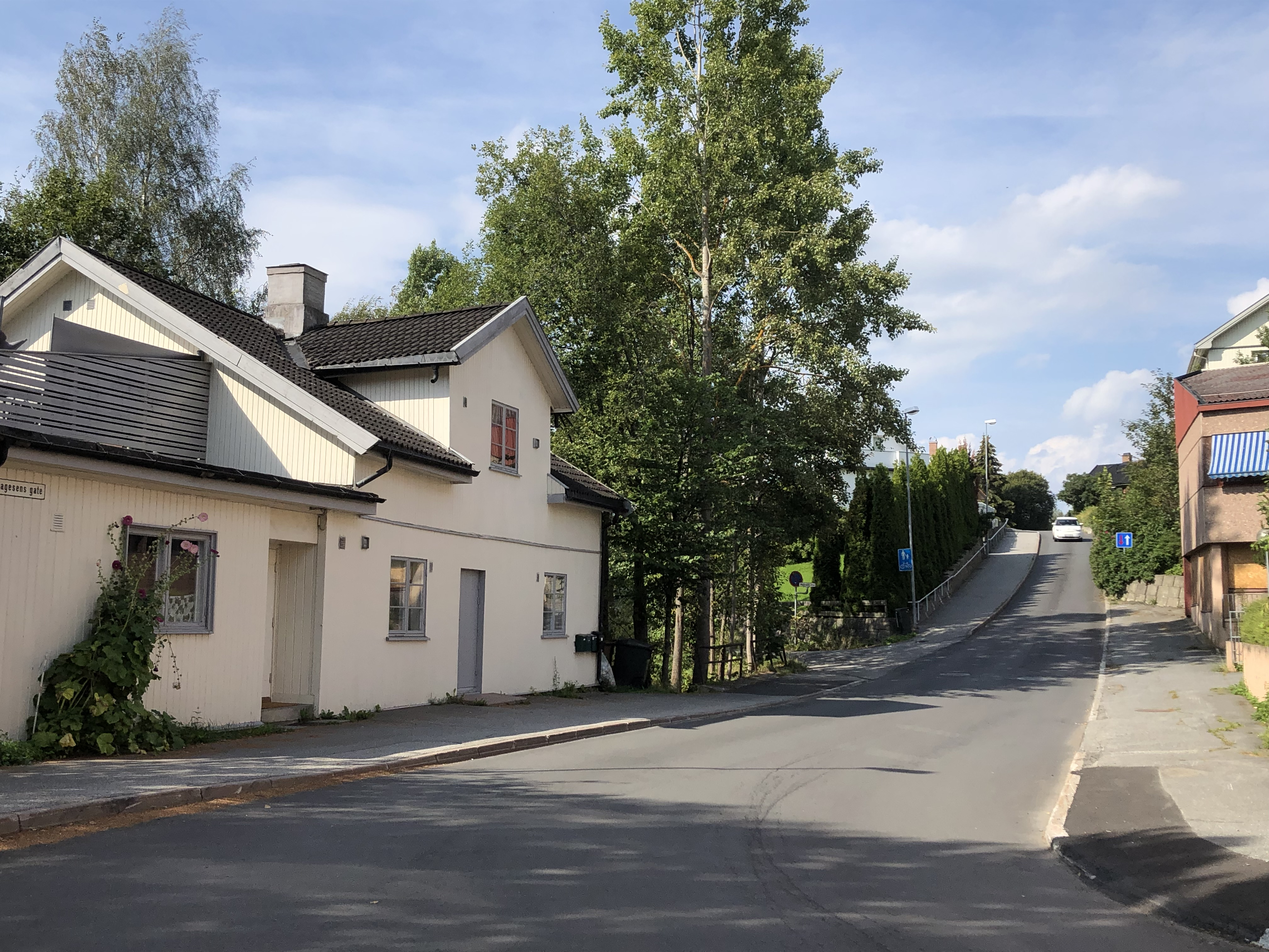 Lagesens gate, Hønefoss, Norway